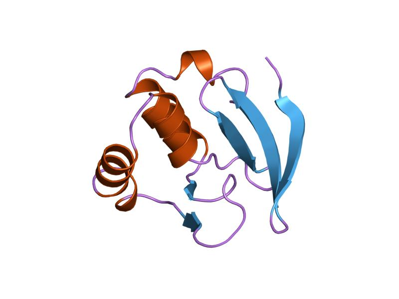 Cartoon representation of the molecular structure of protein registered with 1mb1 code.